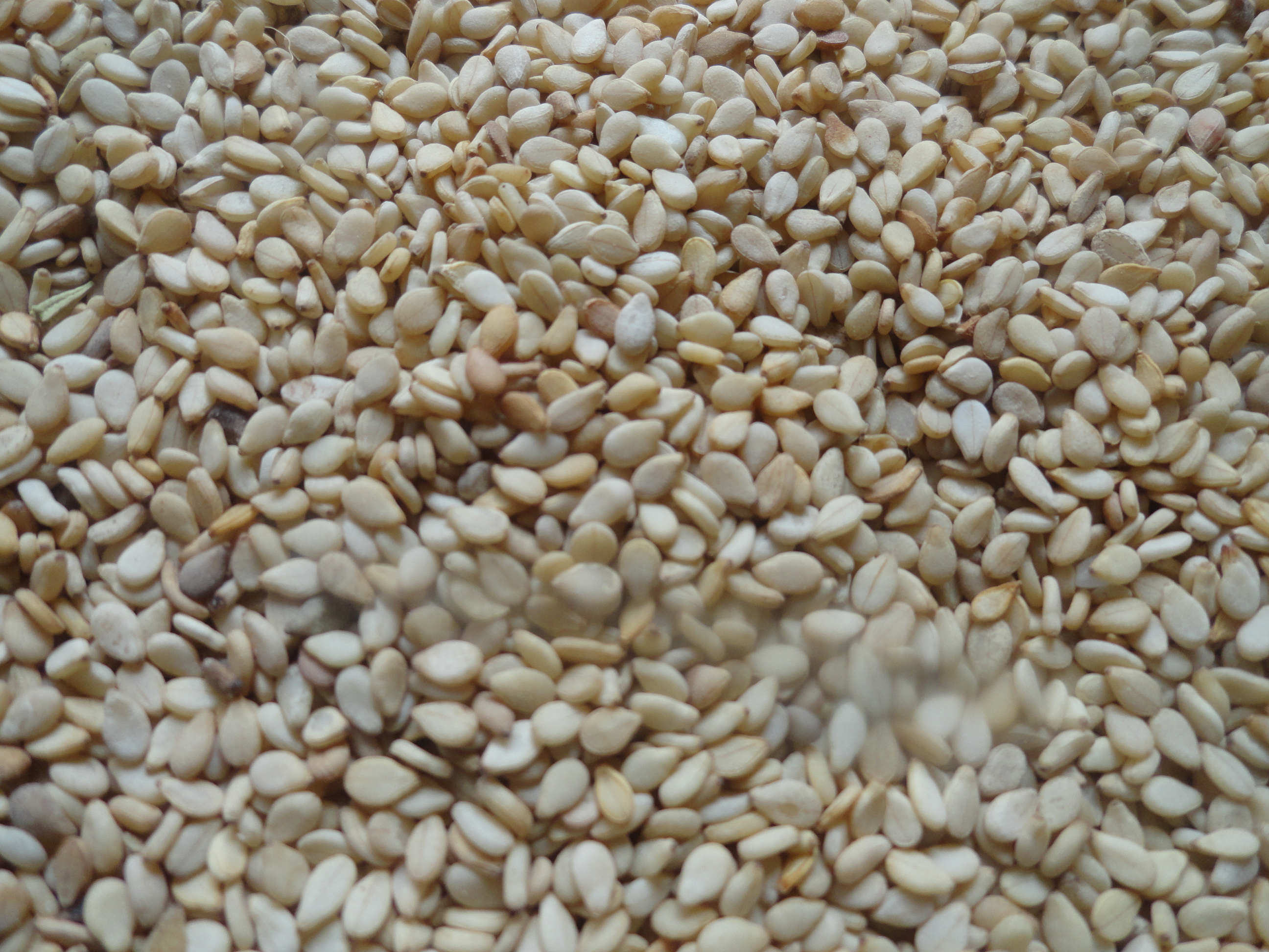 nuvvulu